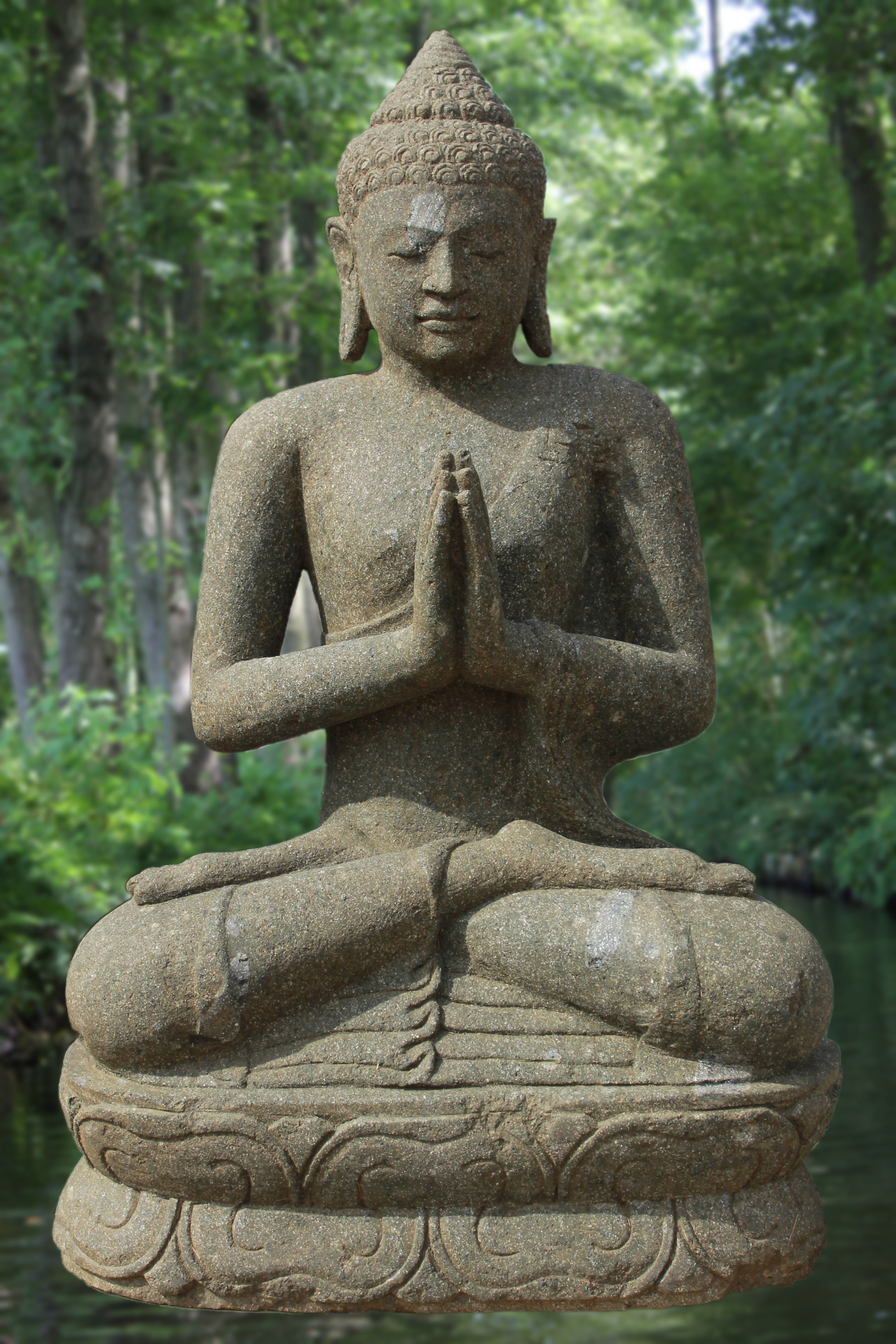 This is a Buddha from the natural stone Basanit with Anjali Mudra (hand position). The Buddha is depicted with Anjali mudra and is derived from the island of Java (Indonesia). The stone figure of this Buddha is located at Garden-Stoneart in D-08496 Neumark / OT Reuth.